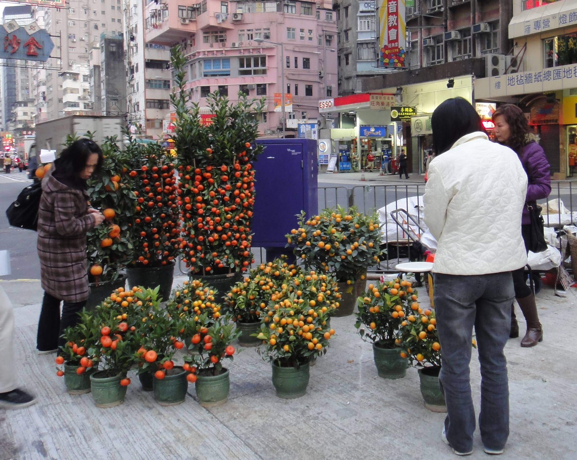 Mandarin Orange